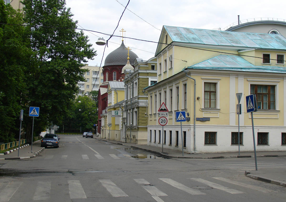 5th Monetchikovsky Lane in Moscow